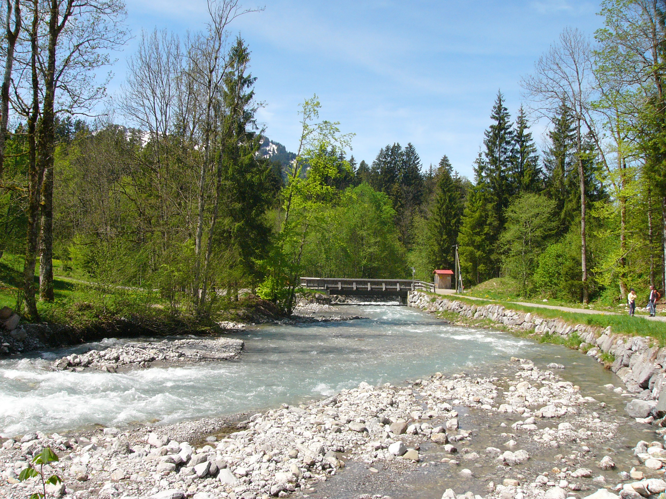 The Oybach is a river in the Allgäu Alps in southwest Germany and empties near Oberstdorf into the Trettach. View just before the confluence.